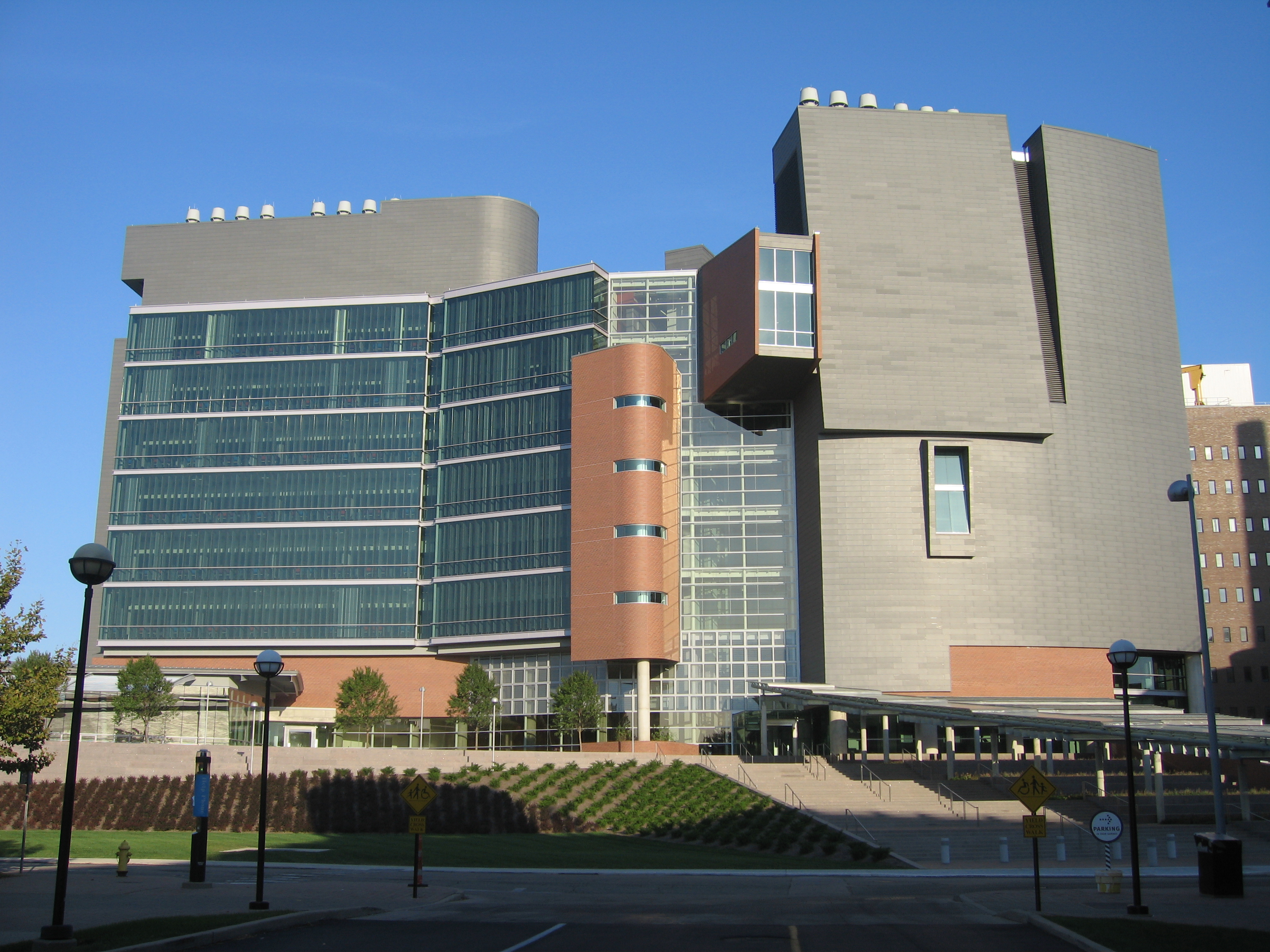 CARE/Crowley building on the Medical campus of the University of Cincinnati.